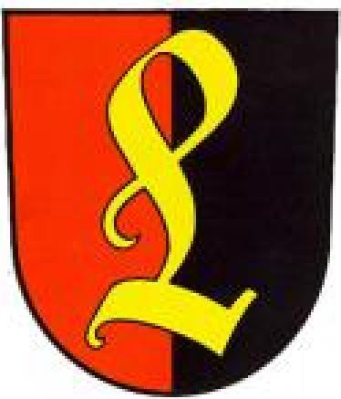 Coat of arms of Category:Lichtensteig, canton of St. Gallen, Switzerland